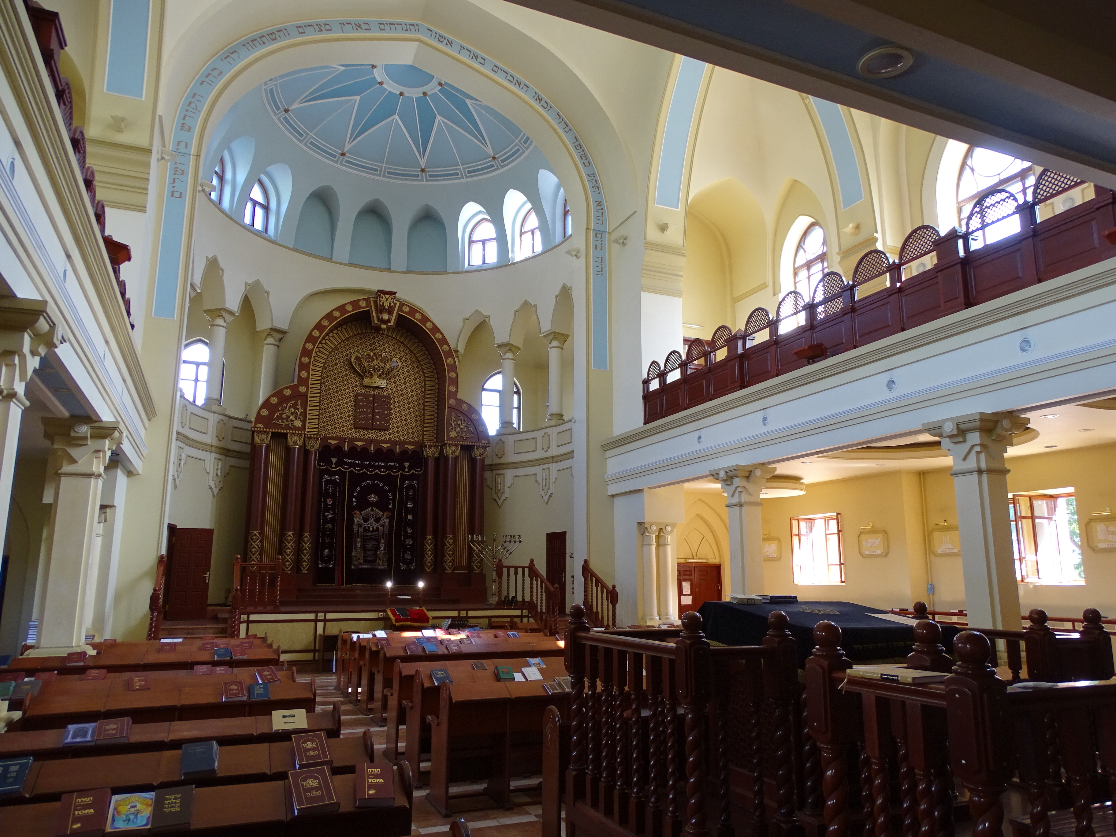 Interior of Choral Synagogue - Kharkiv (Kharkov) - Ukraine - 05